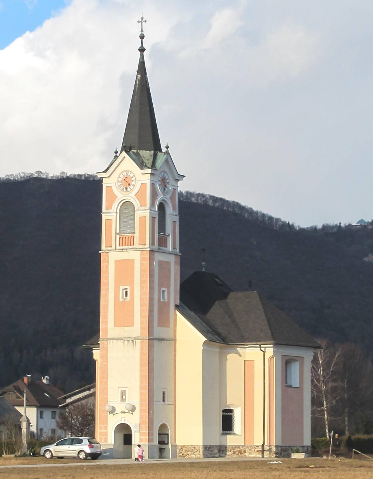 Church of St. James in Stanežiče, Ljubljana Urban Municipality, Slovenia